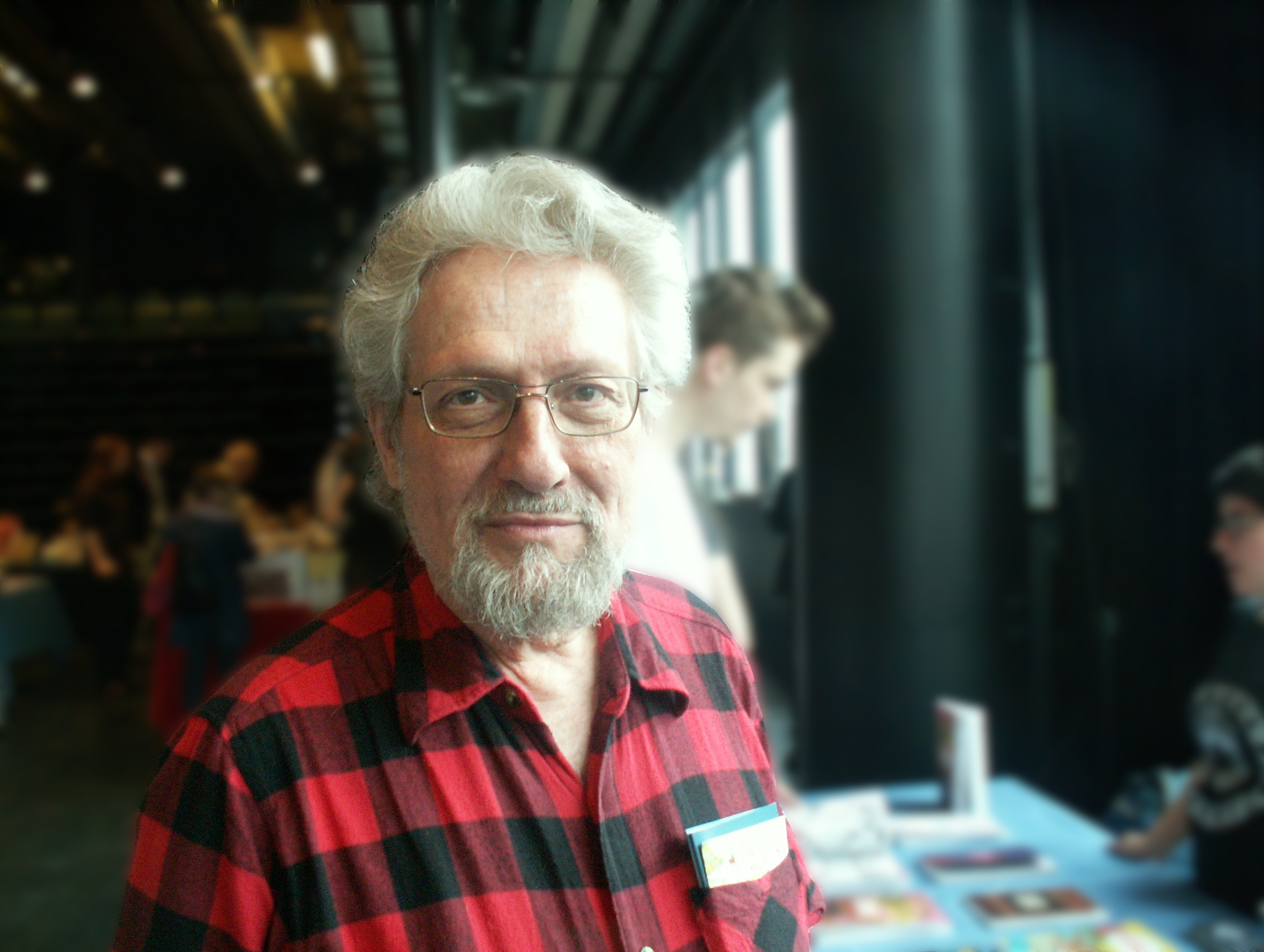 Book and comics publisher Horst Schröder, at the 2014 edition of the Stockholm international comics festival. Post-processing of the image has added a blurred background.